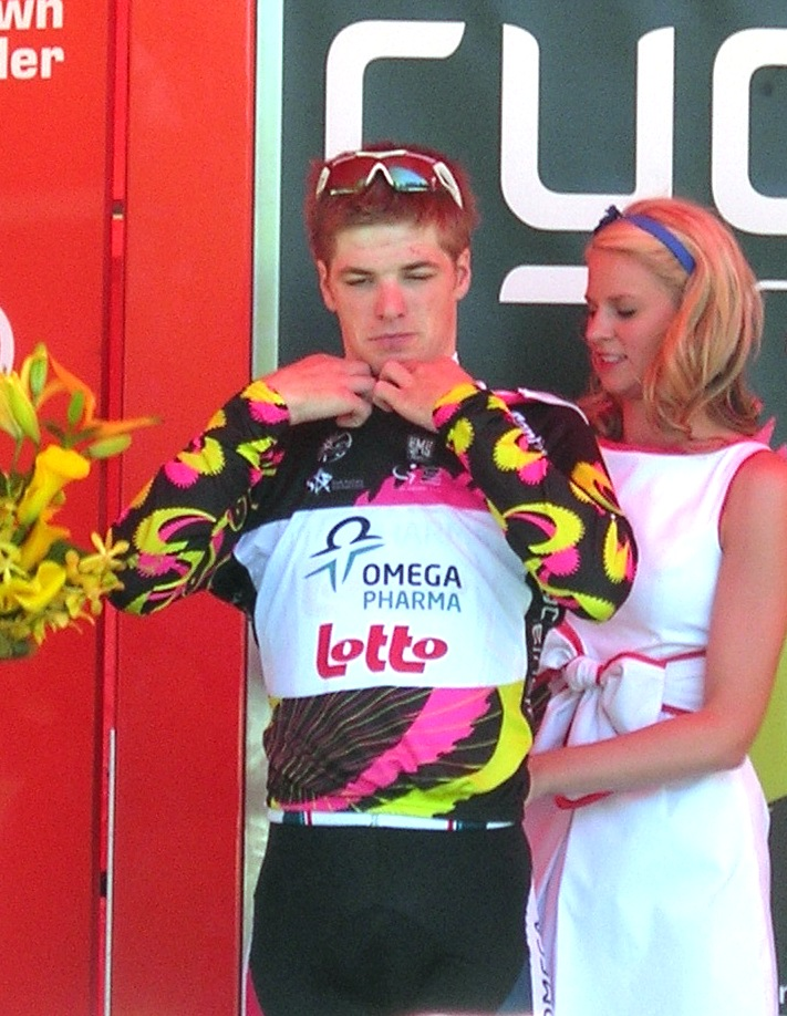 Omega Pharma-Lotto rider Jurgen Roelandts receiving the young rider classification jersey on the podium after Stage 3 of the 2010 Tour Down Under into Stirling.